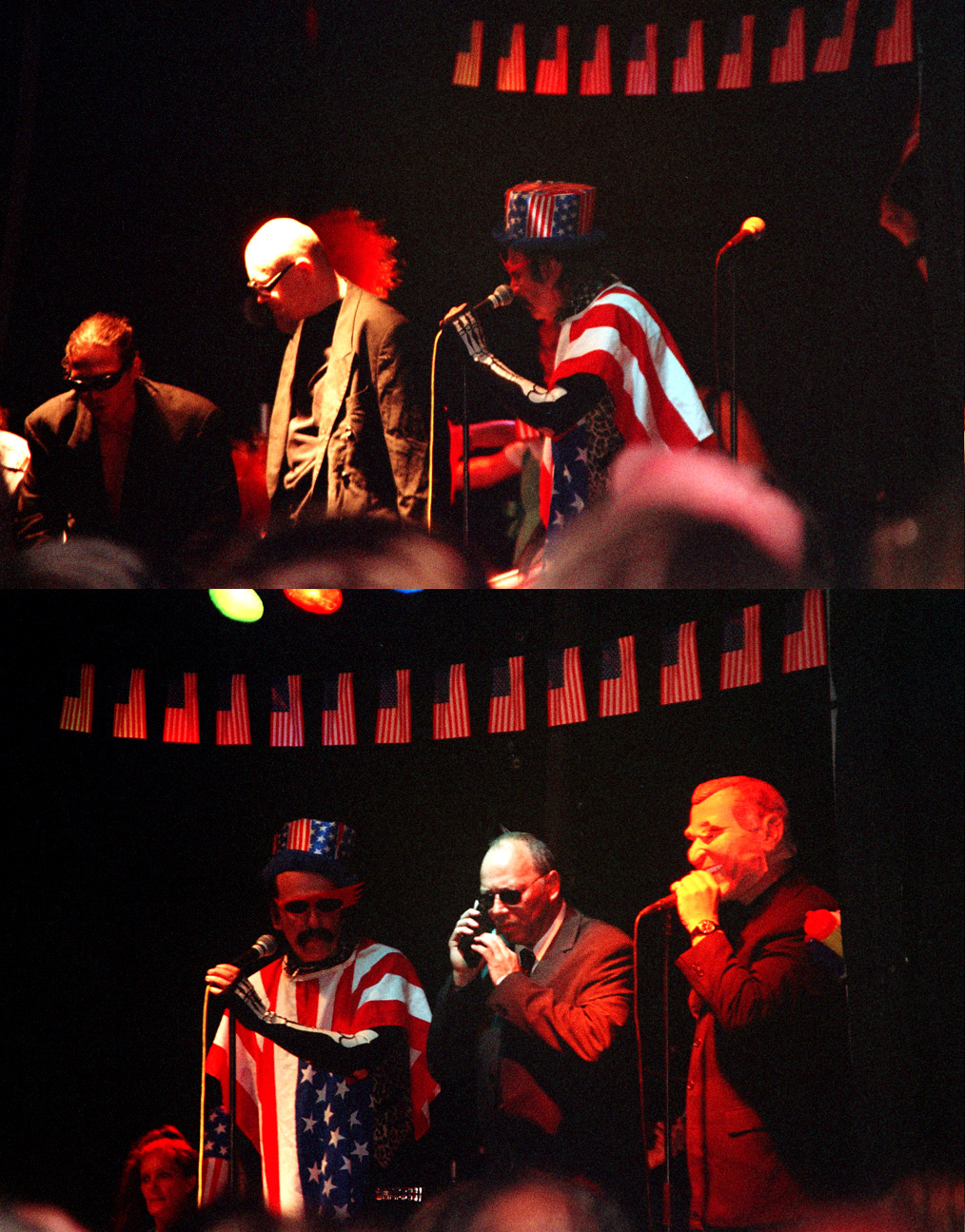 Austrian Rock/Punk-Band Drahdiwaberl performing during the protests when George W. Bush, president of the United States, visited Vienna (with hat: singer/band-leader Stefan Weber).